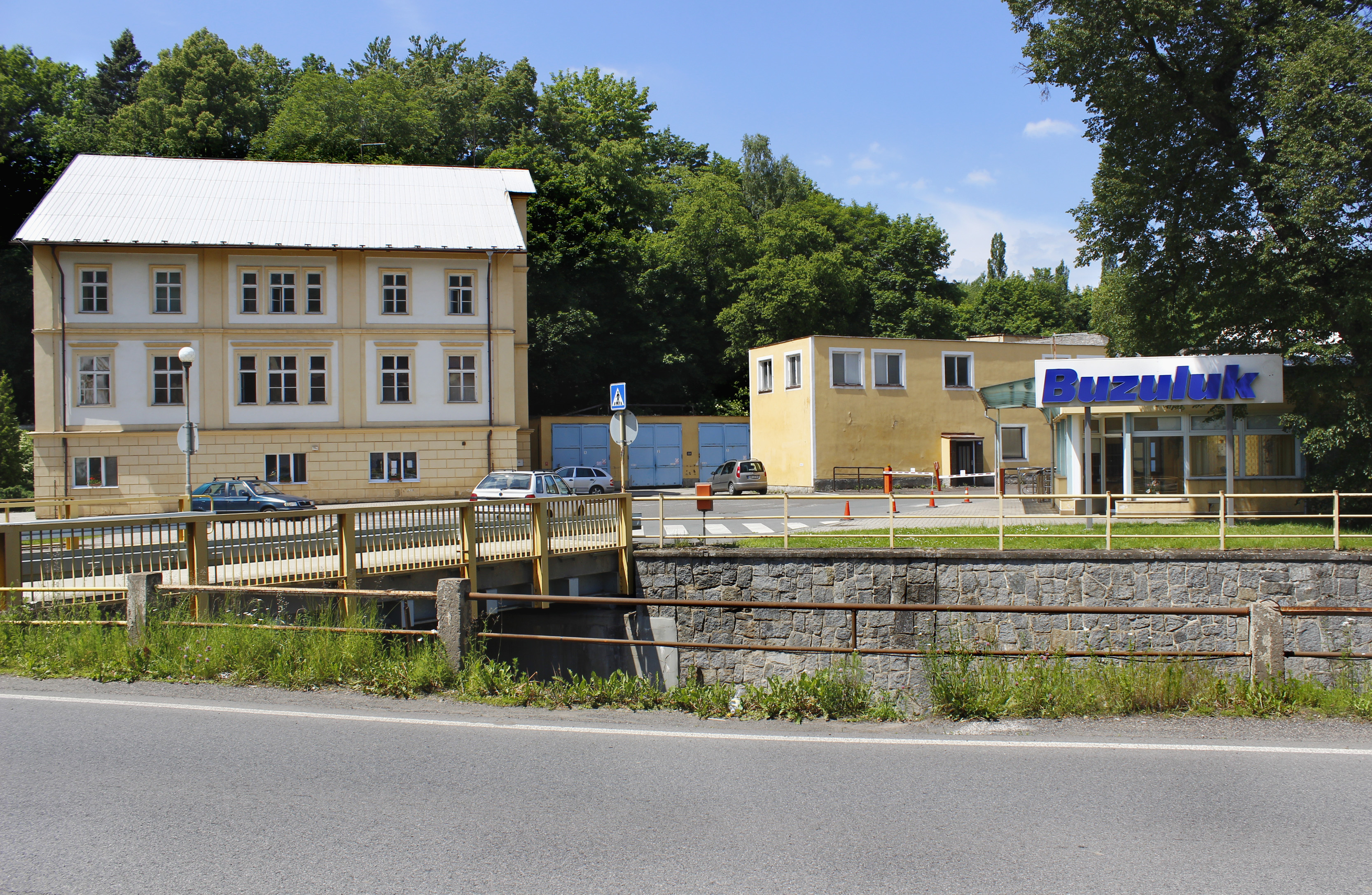 Buzuluk factory in Komárov, Czech Republic